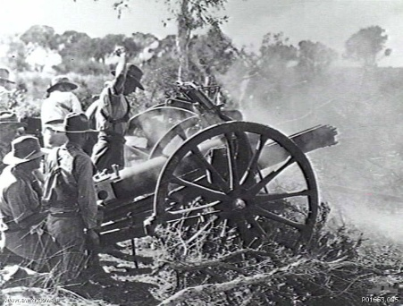 AWM caption : "ROCKINGHAM, WA, 1935. MEMBERS OF THE 3RD BRIGADE, AUSTRALIAN FIELD ARTILLERY MILITIA, AT A MILITARY RANGE FIRING THEIR 4.5 INCH HOWITZER. THE BRIGADE IS ATTENDING A SPECIAL CAMP TO PRACTISE FIRING ITS GUNS WITH LIVE AMMUNITION." Comment : this shows the barrel at full recoil after firing.